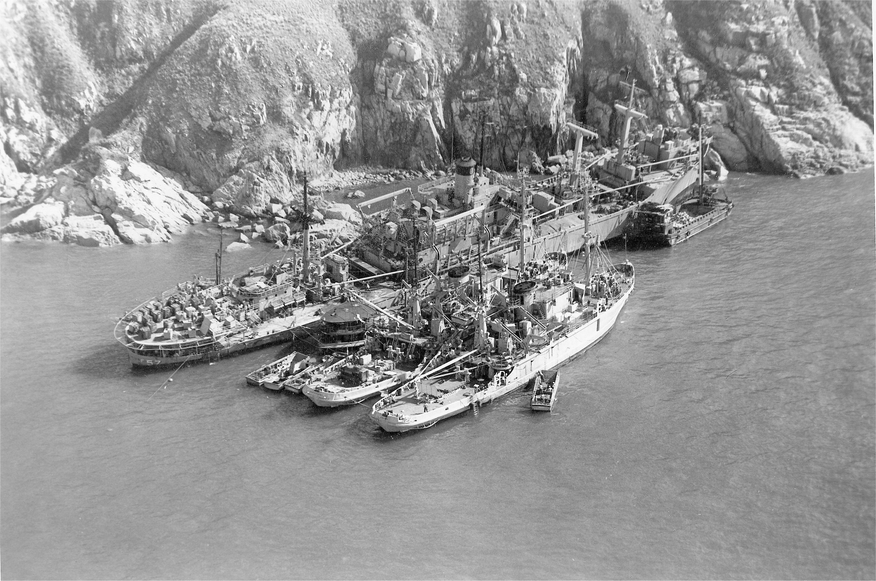 USS Safeguard (ARS-25) (inboard) and USS Grasp (ARS-24) (outboard) conducting salvage operations of USS Regulus (AF-57) after she ran aground on a reef at Kau I Chau Island off the coast of Hong Kong following the passing of Typhoon Rose on 16-17 August 1971.